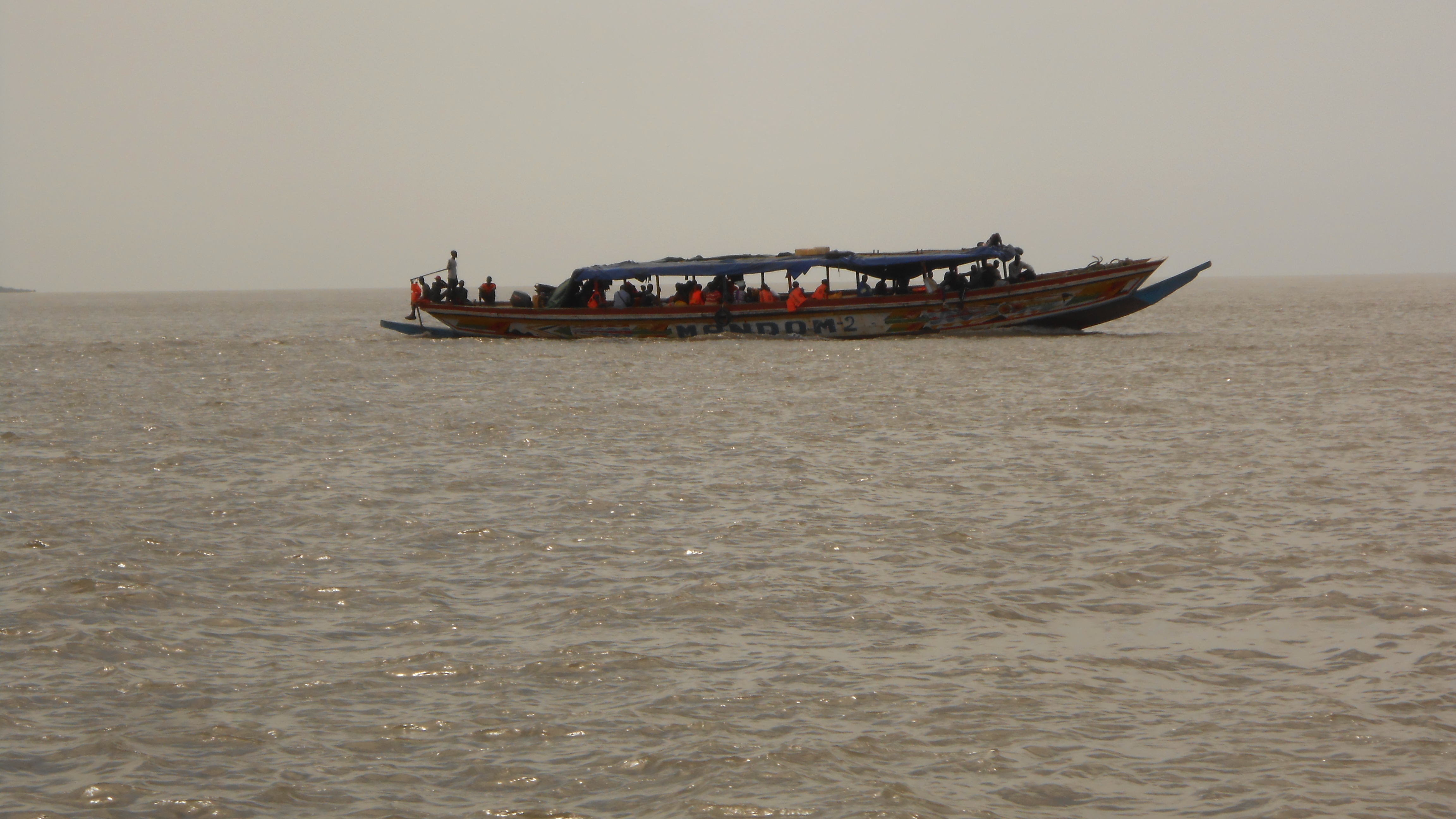 The ferry that links Bolama to the capital city Bissau is approaching the port of Bissau.